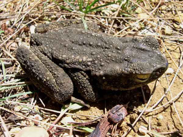 Bufo asper